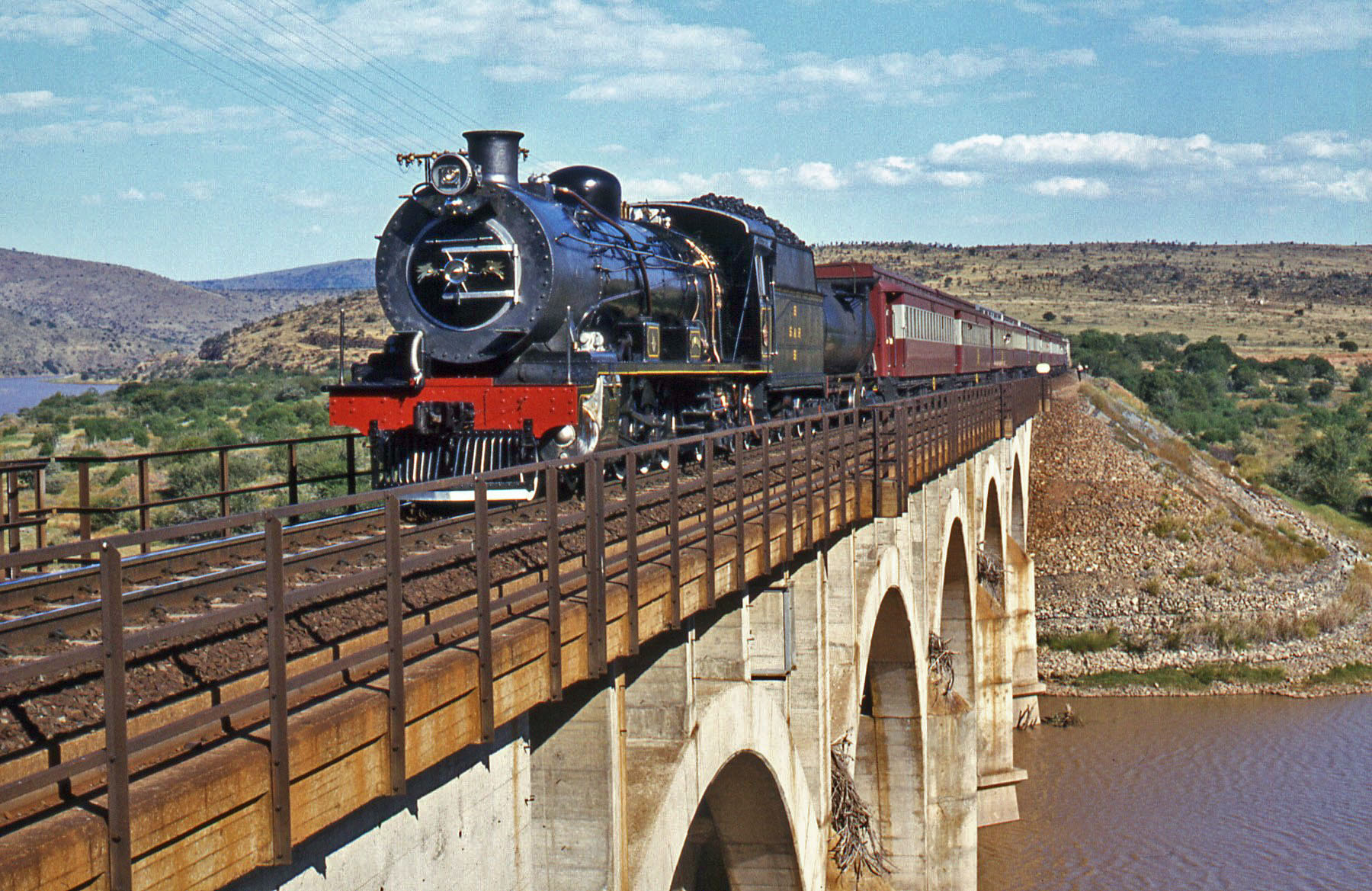 SAR Class 12R 1505 (4-8-2) NBL Location: Nelland (Great Fish River)